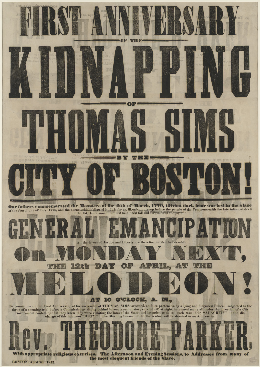 BPLDC no.: 09_03_000058 Title: First anniversary of the kidnapping of Thomas Sims Date created: April 9, 1852 General format: broadside BPL Department: Rare Books Department Description: Thomas Sims (b. 1834) escaped from slavery in Georgia at age of 17 and made his way north in search of safety in Massachusetts. However, on April 4, 1851, Sims was arrested in Boston under the federal Fugitive Slave Law. Following a dramatic court trial, he was returned to his owner against the strong protests of local abolitionists. The “kidnapping” of Thomas Sims by police was a cause célèbre for the active Boston anti-slavery community. Home of abolitionist William Lloyd Garrison and his anti-slavery newspaper The Liberator, Boston had become known world-wide as the nexus for the American abolition movement. This large broadside proclaims a commemoration of the first anniversary of the Sims arrest with an address by famous local abolitionist, the Reverend Theodore Parker. The BPL is home to one of the largest collections of anti-slavery manuscripts in the country, totaling over 17,000 pieces from Parker and Garrison as well as other famous local abolitionists including Maria Weston Chapman, Lydia Maria Child, and Samuel May, Jr. |Source= First anniversary of the kidnapping of Thomas Sims |Date=2009-10-09 12:45 |Author=BPL